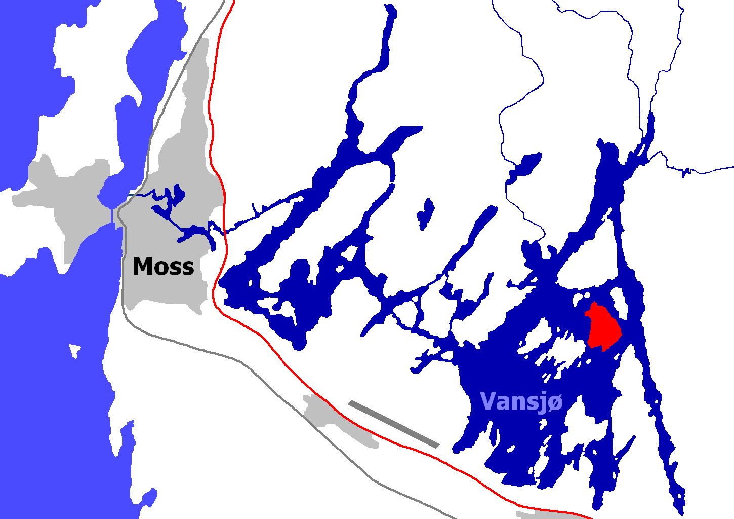 Map of the lake Vansjø. The island of Burumøya in red. Created by JohnM 21:42, 20 May 2006 (UTC)